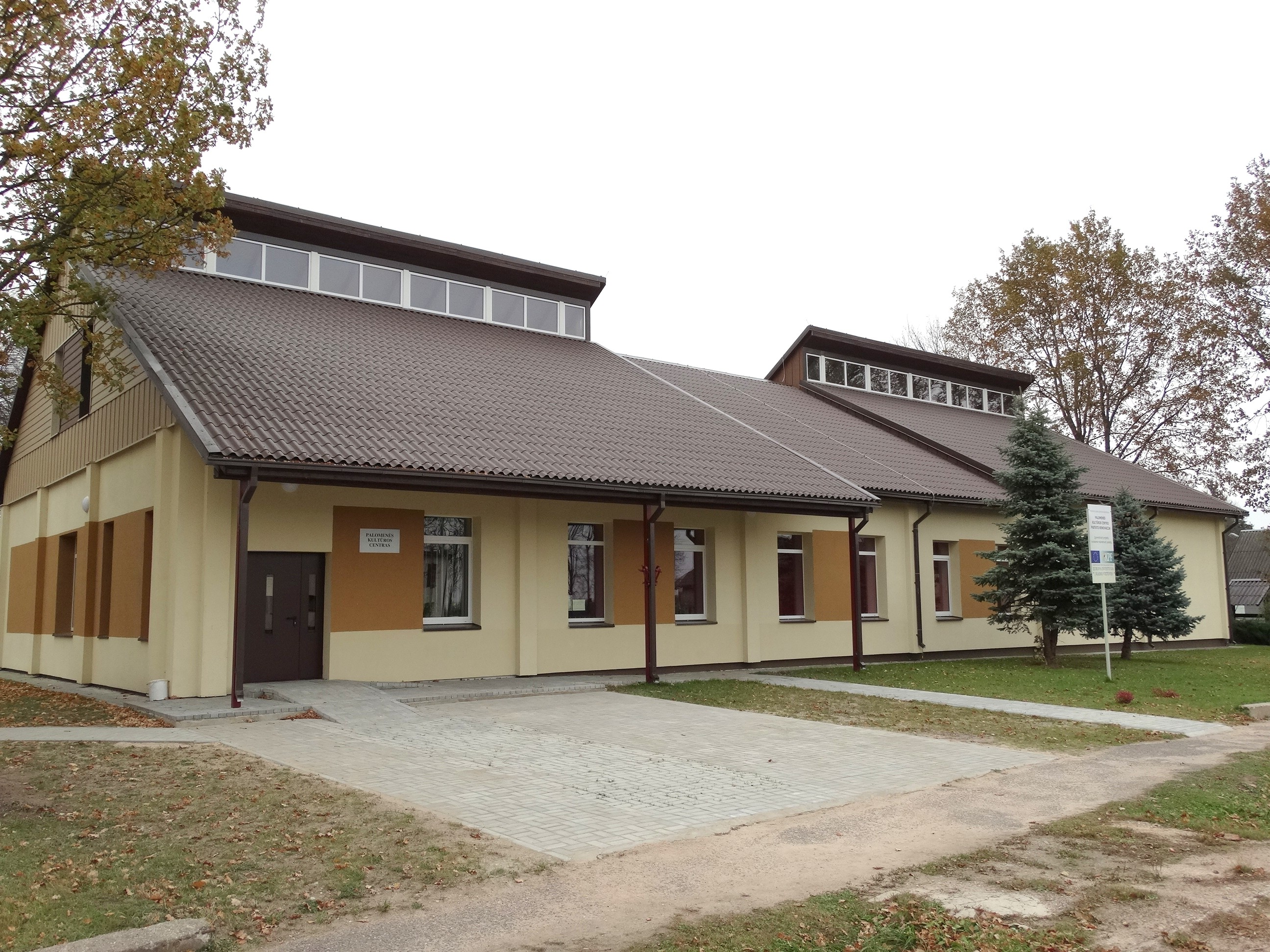 Centre of culture, Palomenė, Kaišiadorys district, Lithuania